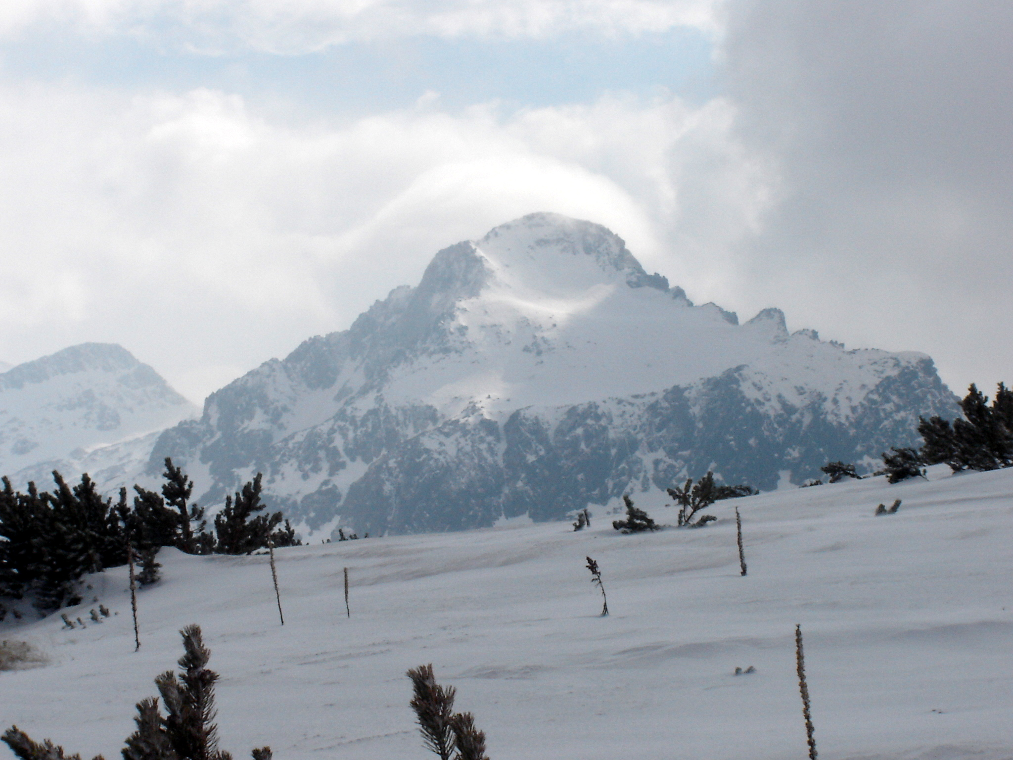 Samodivski Peak aka Djengal Peak (2730 m), Pirin, Southwest Bulgaria